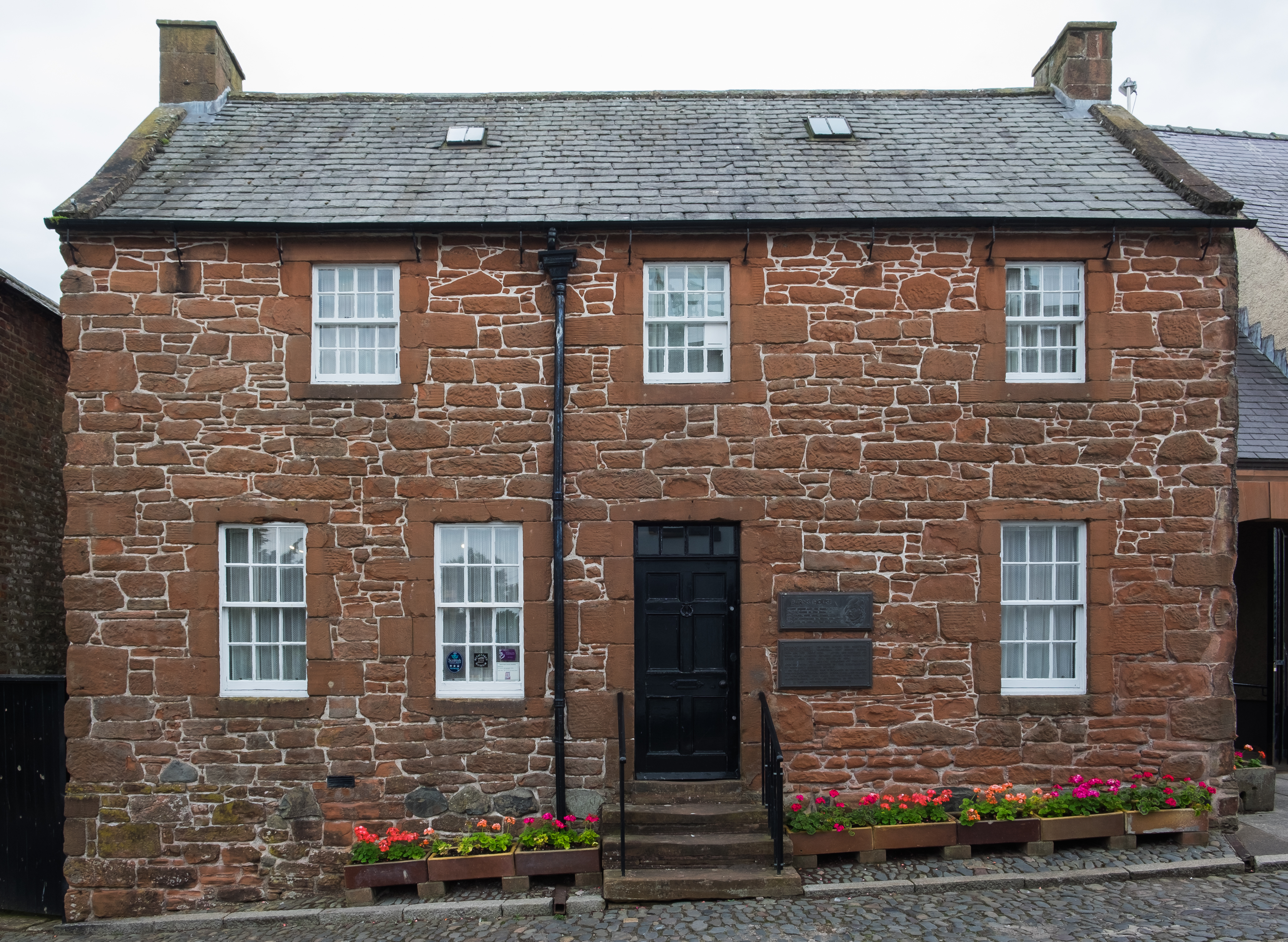 Robert Burns House in Dumfries, Scotlad. Burns lived here with his family from 1793 until his death in 1796. This is a Category A Listed Building in Scotland.